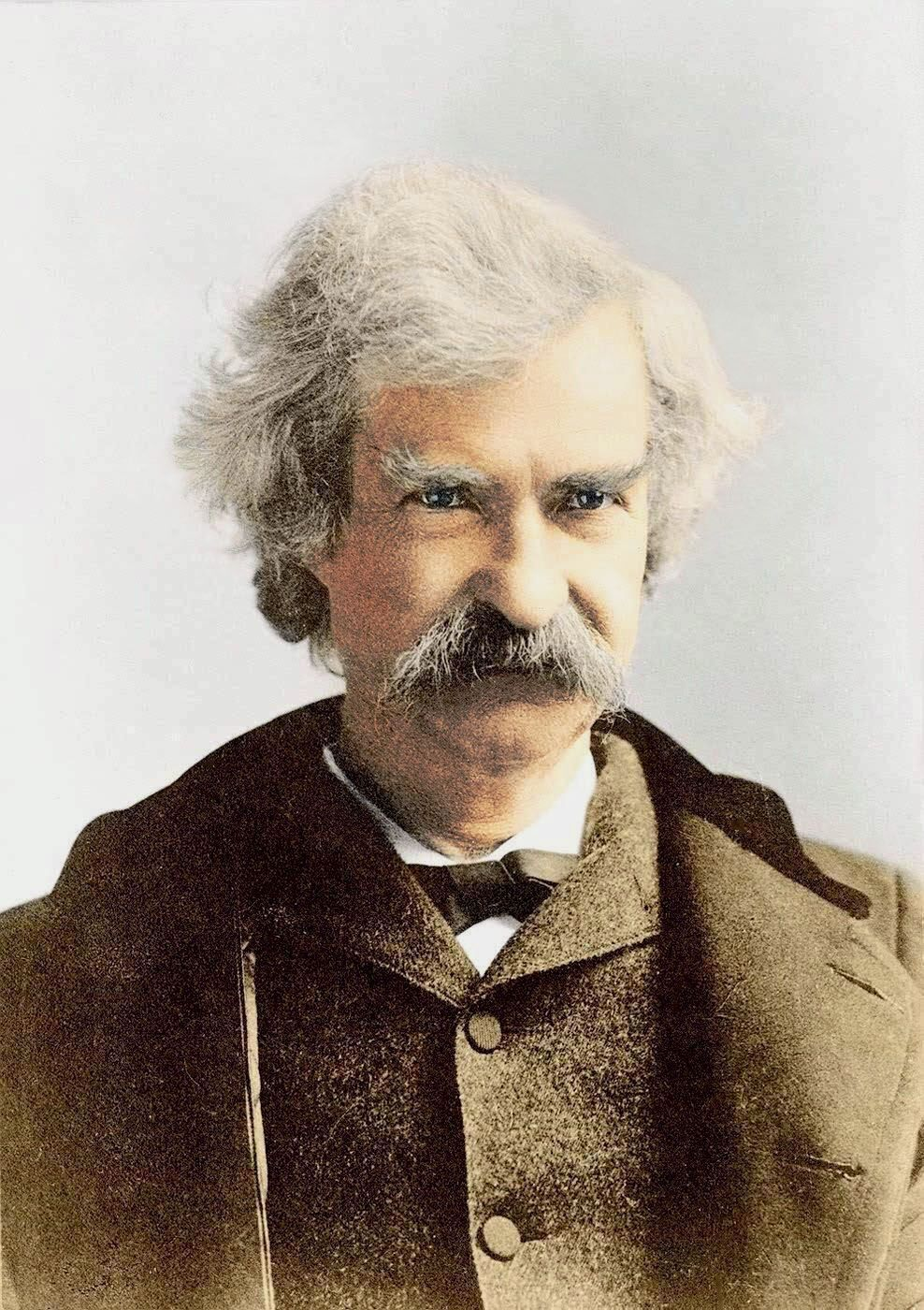 Portrait of Mark Twain (1835-1910)